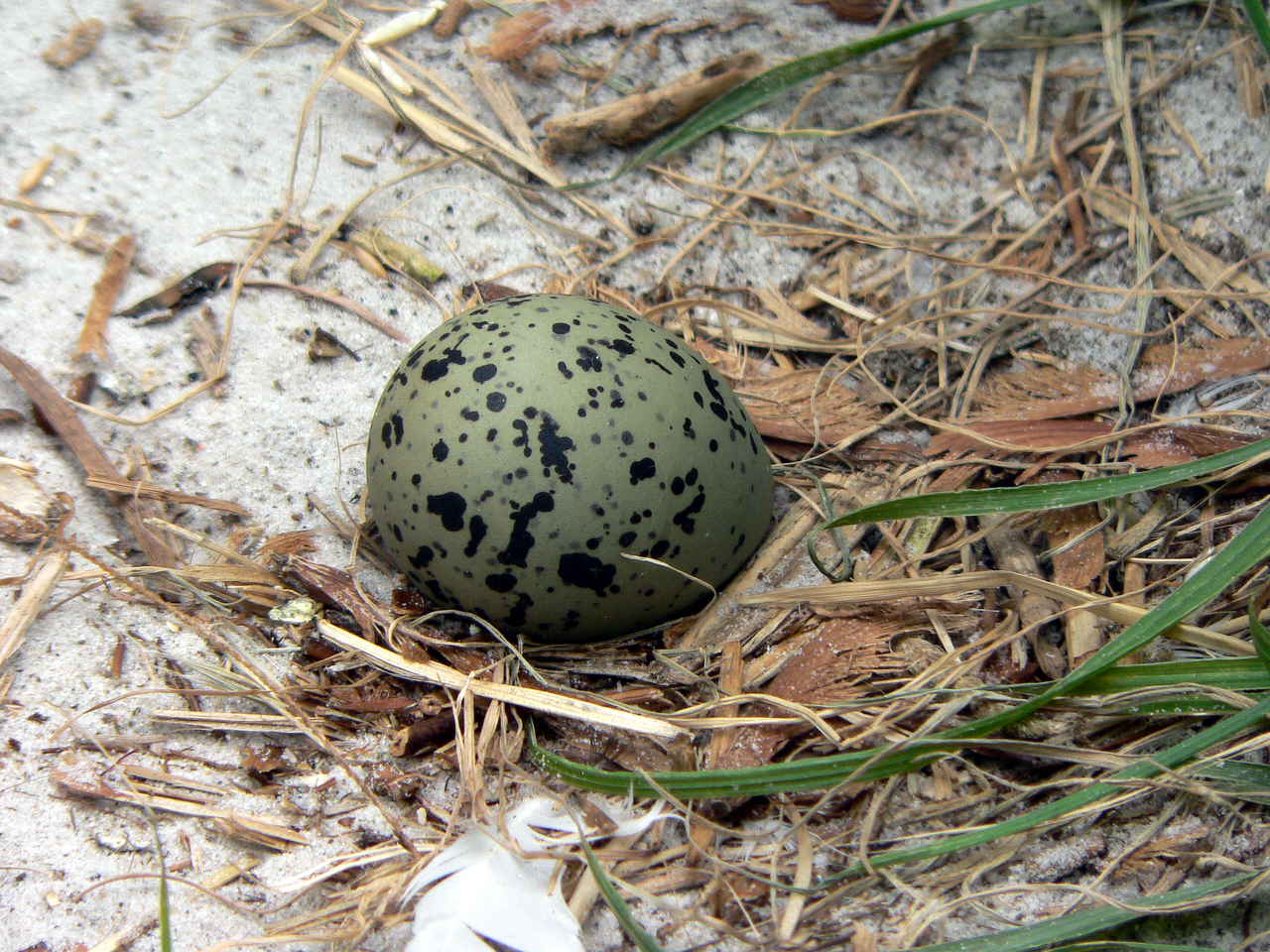 Egg of Recurvirostra avocetta